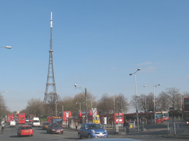 Crystal Palace Bus Station. A major node in the South London transport network is this bus station at the top of Crystal Palace hill, in the shadow of 658332.